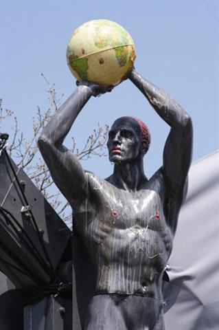 Bryan Mc Cormack Domaine national de Saint-Cloud